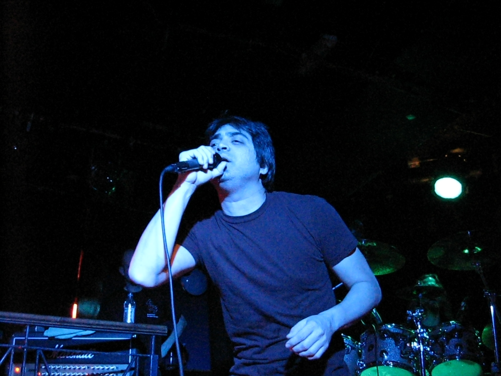 Fates Warning at The Underworld in Camden, 2007-11-21.